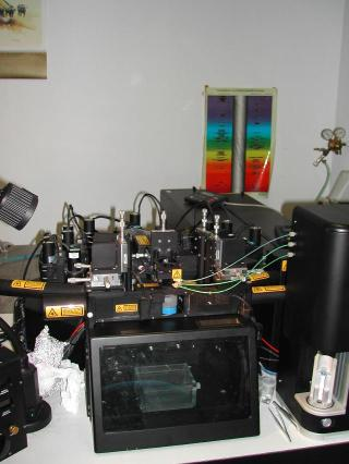 MoFlo Flowcytometer with sorting option produced by DAKO Cytomation (partial view)